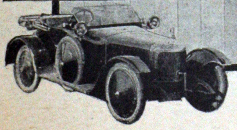 1920 Douglas 10.5 h.p. 2/3 passenger DHC, top down. Light car, appears standard coachwork. Illustration first appeared in November, 1919.